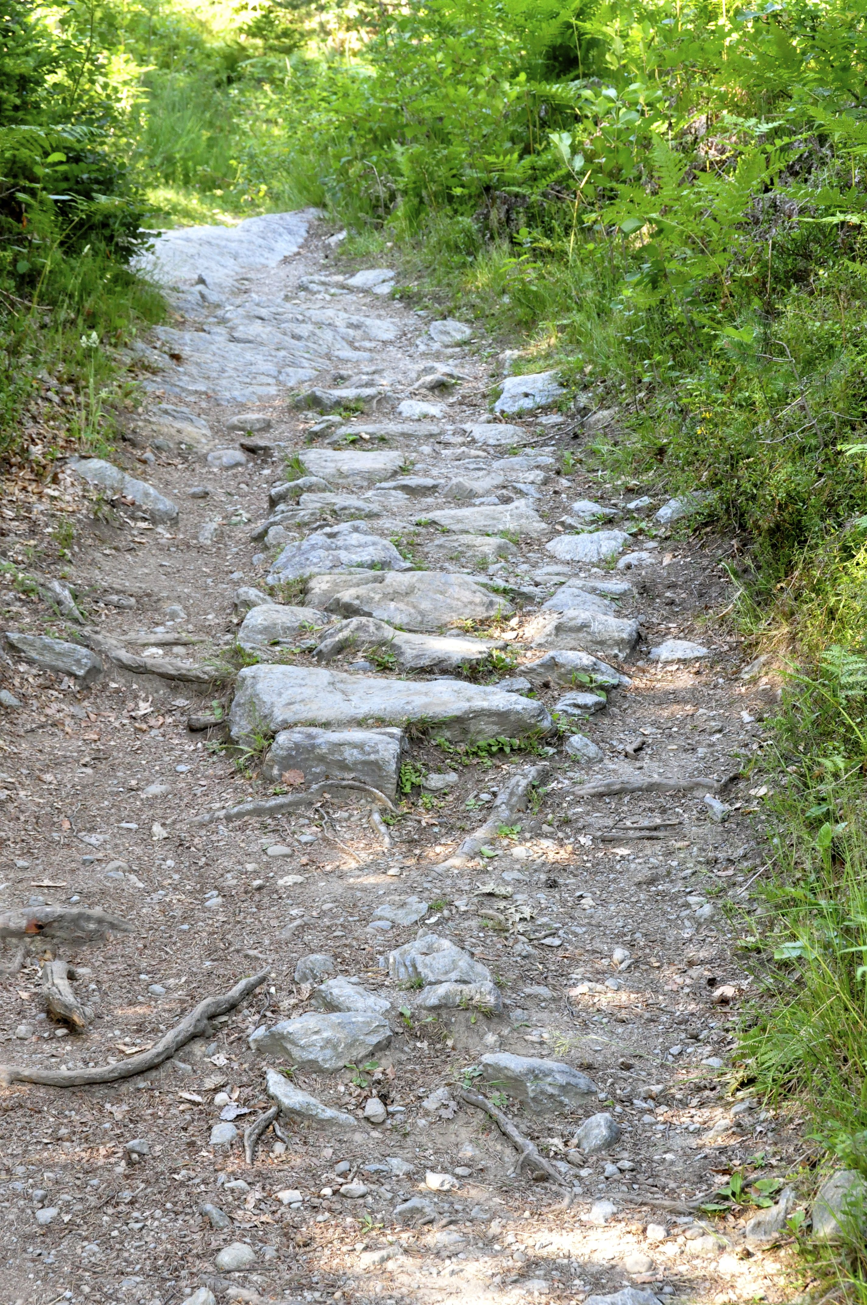 Hiking trail around the Forstsee at Tibitsch, municipality Techelsberg am Wörther See, district Klagenfurt Land, Carinthia / Austria / EU